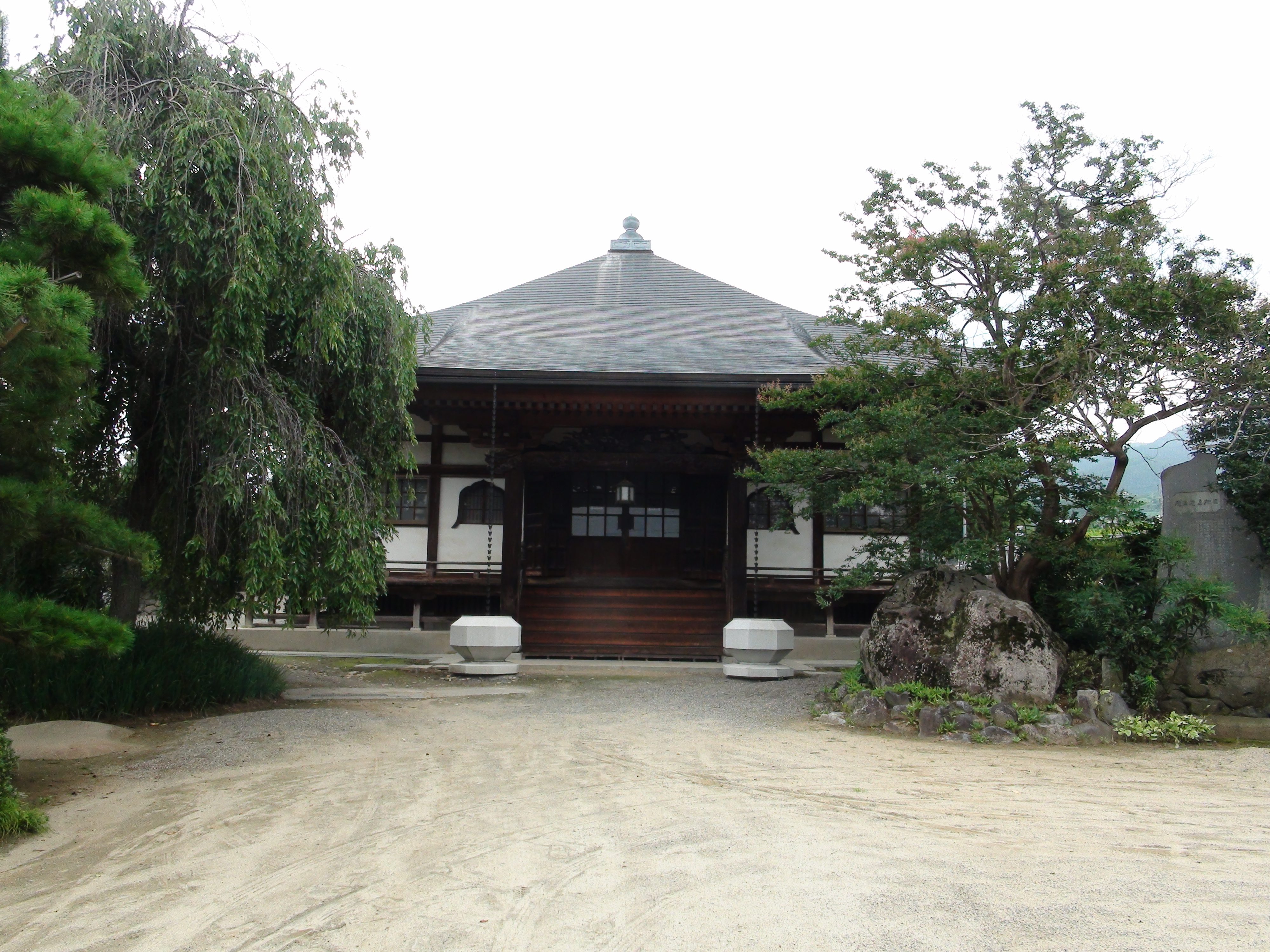 Main hall of Myosho-ji Temple Fuefuki city